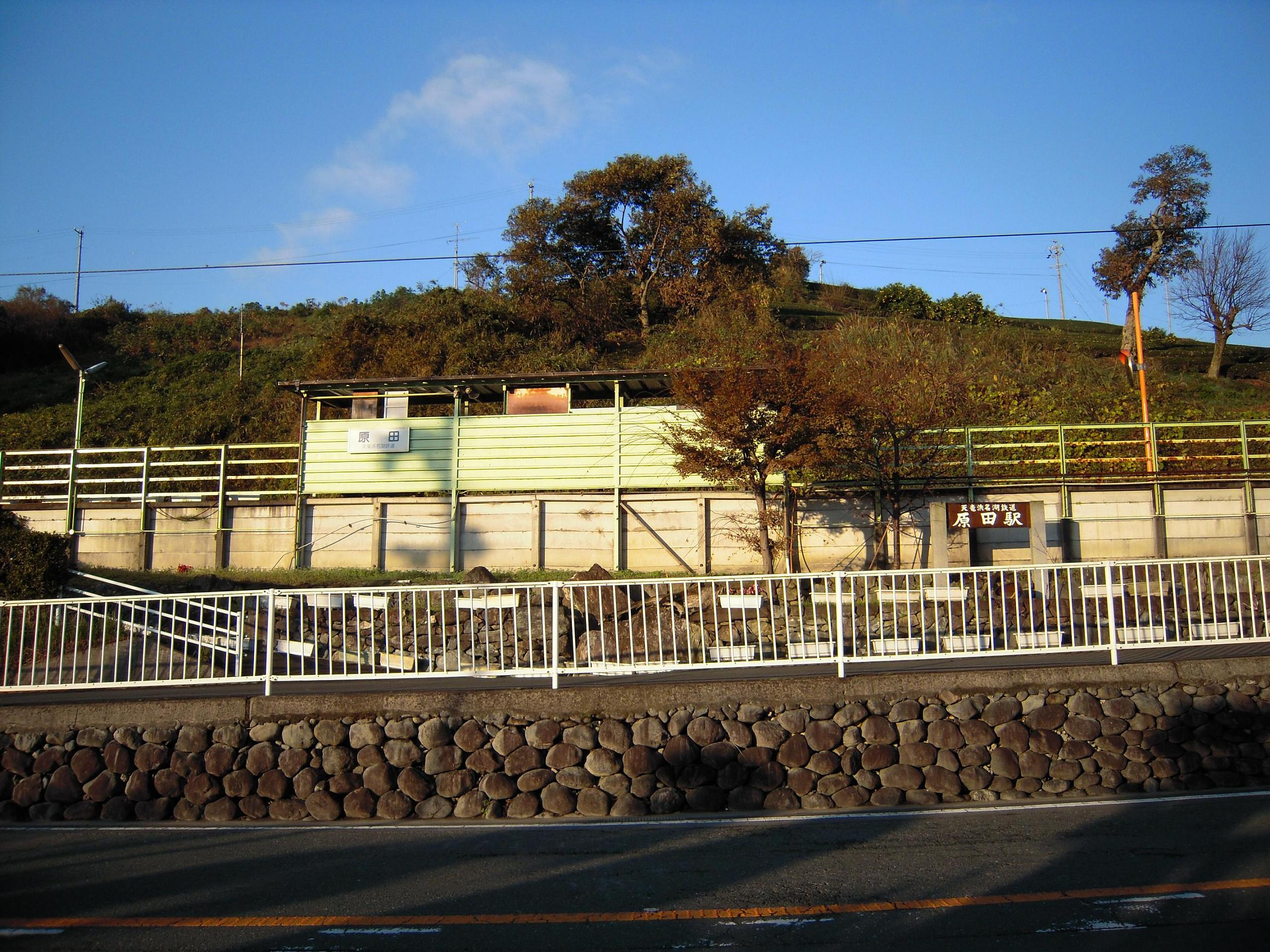 Tenryu-Hamanako railroad company Harada Station